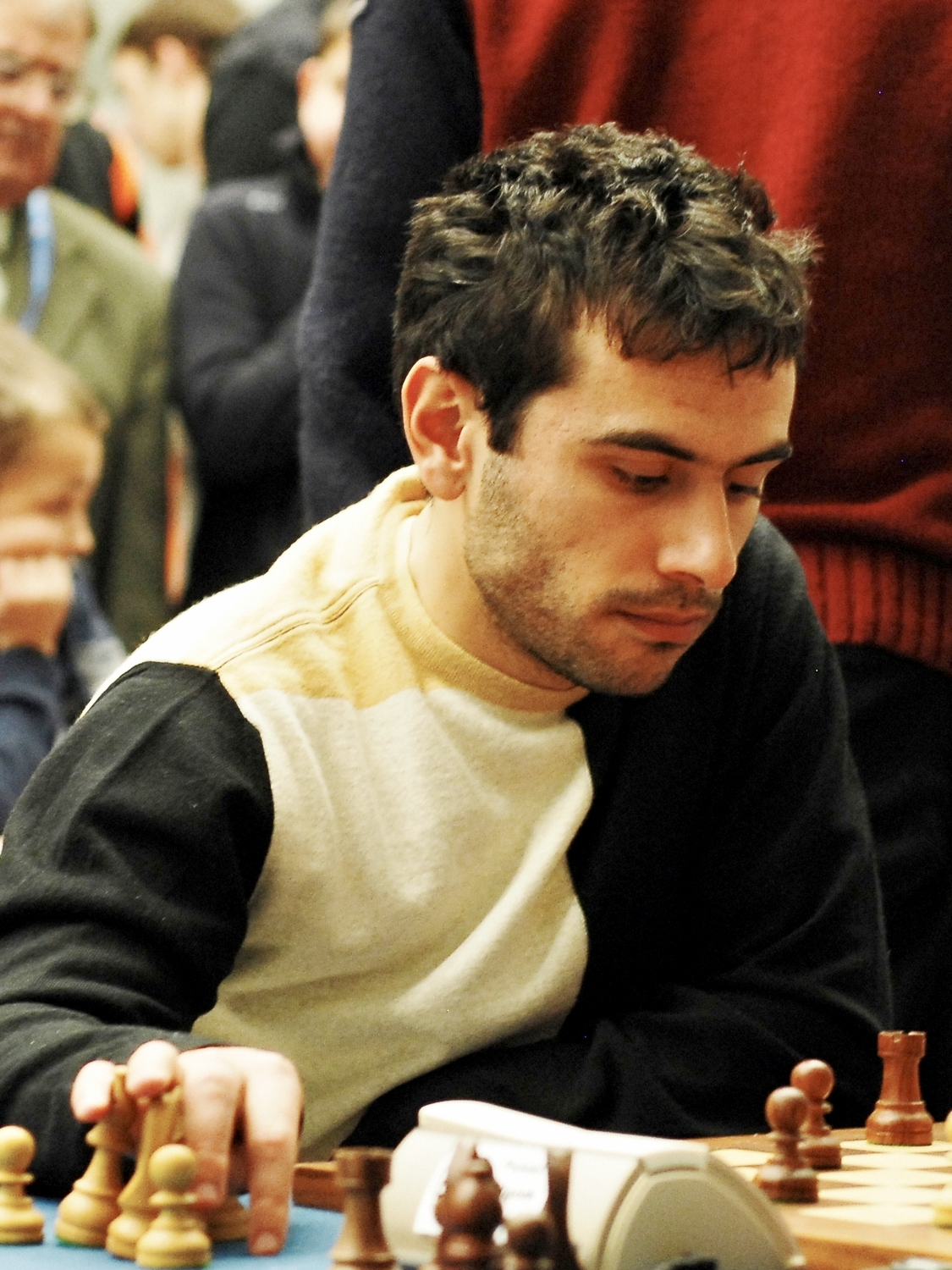 GM Gabriel Sargissian, European Rapid Chess Championship, Warsaw 2012.